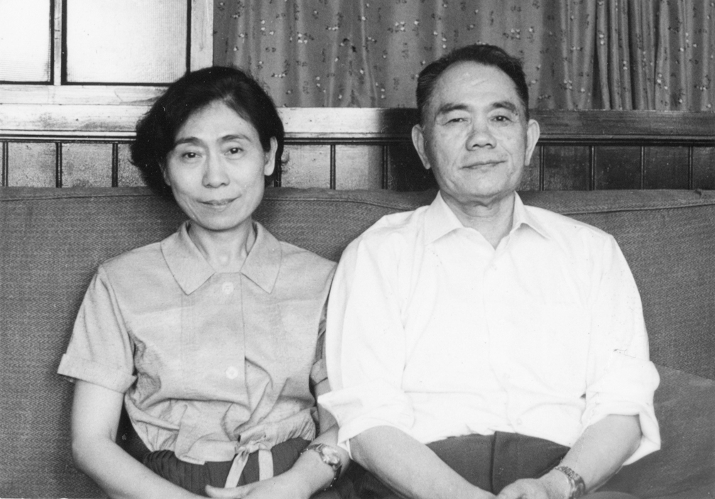 Dr.謝玉露 and Dr.陳篡地, who are husband and wife